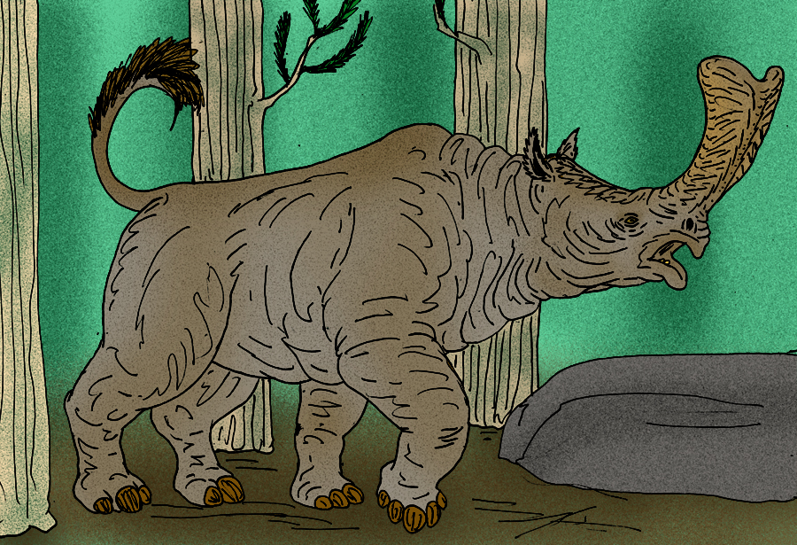 My reconstruction of the brontothere Embolotherium andrewsi, of Late Eocene Mongolia. (C) Stanton F. Fink